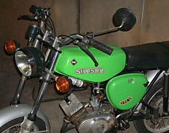 Simson S50 Moped from 1979